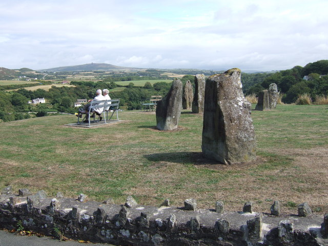 Enjoying the view at the Gorsedd circle, Fishguard. This Gorsedd (throne) circle of stones remains from the Crowning of the Bard at the 1936 eisteddfod held at Fishguard/Abergwaun. It was famously the occasion of a drunken visit by Augustus John and Dylan Thomas who fell out to such an extent that the young poet was turned out of the car on the way back.